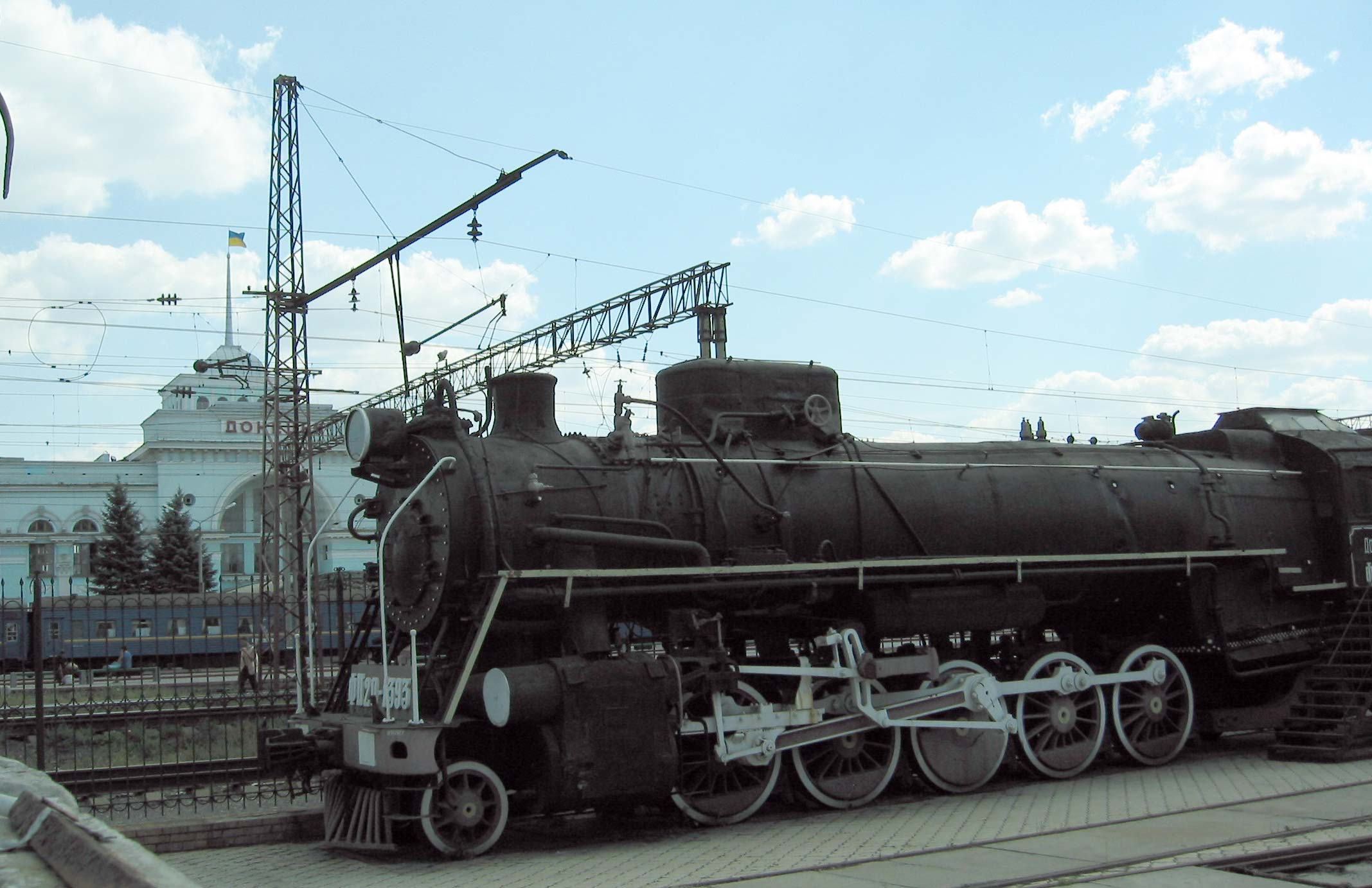 Museum of the History and Development of the Donetsk Railway. Locomotive FD20-1339